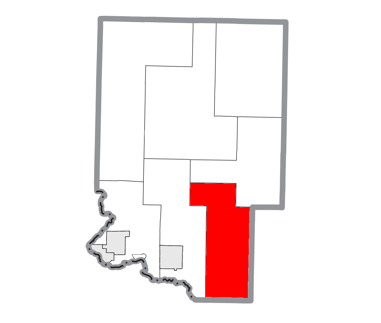 Waucedah Township, MI